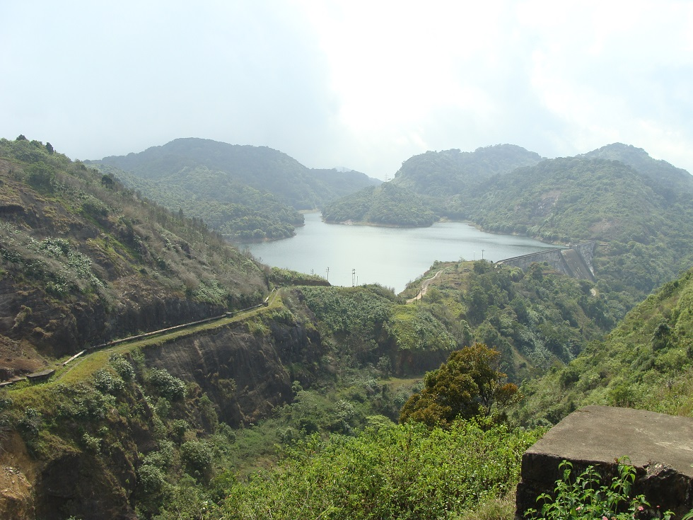 kothayar dam